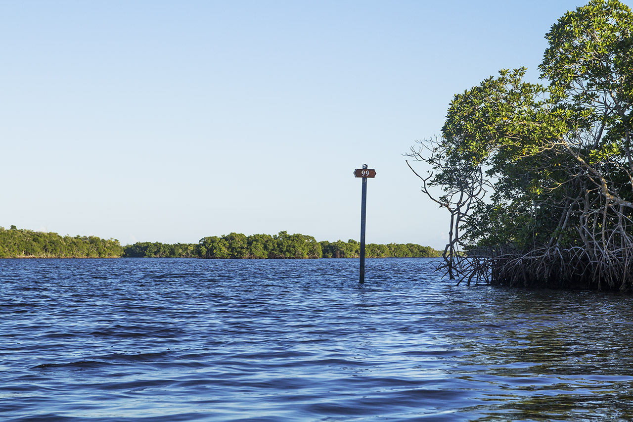 A shot from a kayak of the Wilderness Waterway by Mile Marker 99.